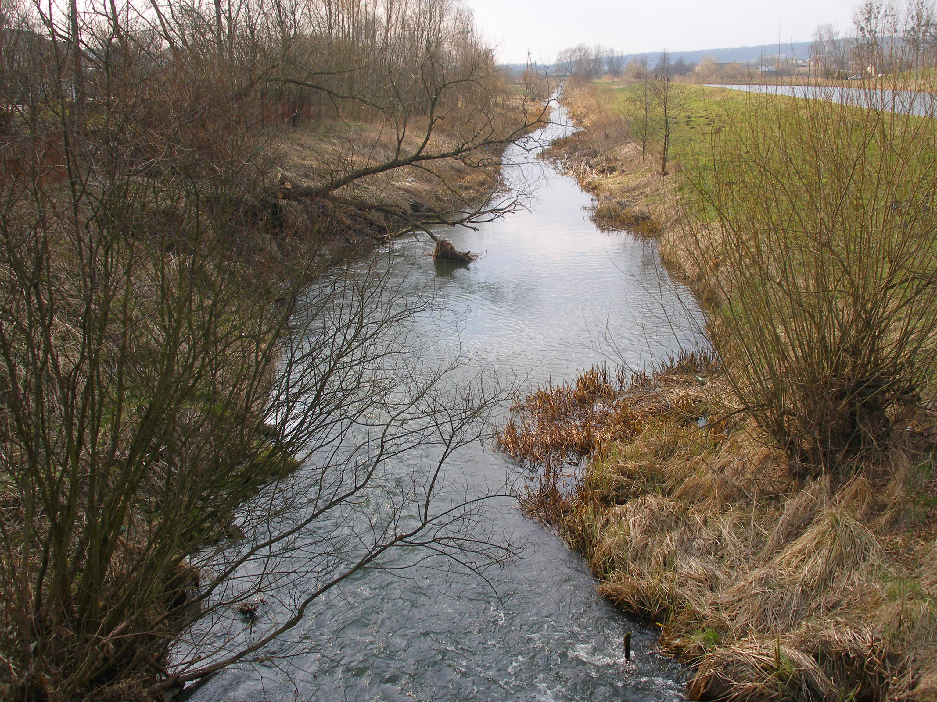 River Wolica